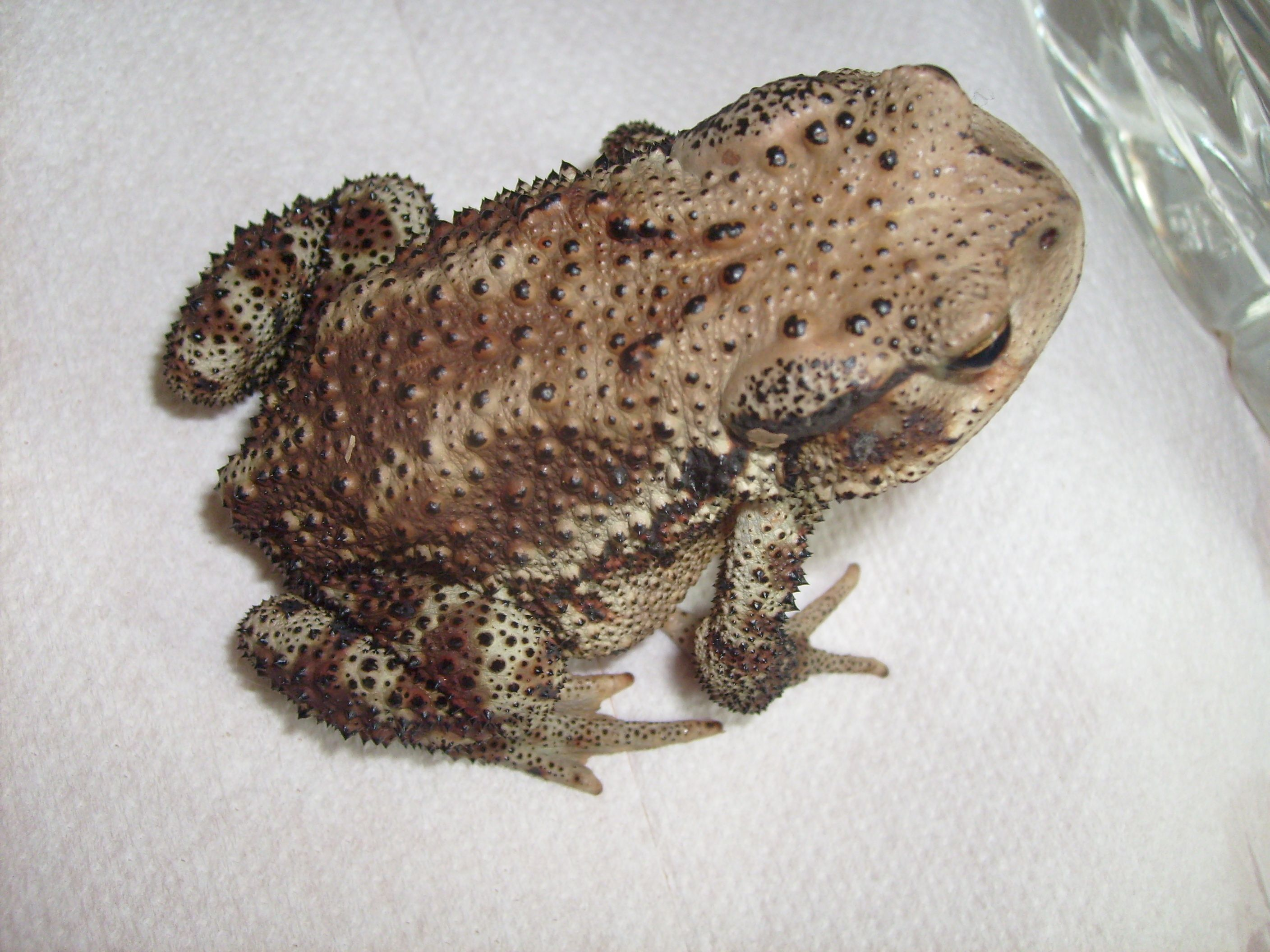 Adult Bufo gargarizans, the Asiatic toad, from above. Body length approx 12 cm.